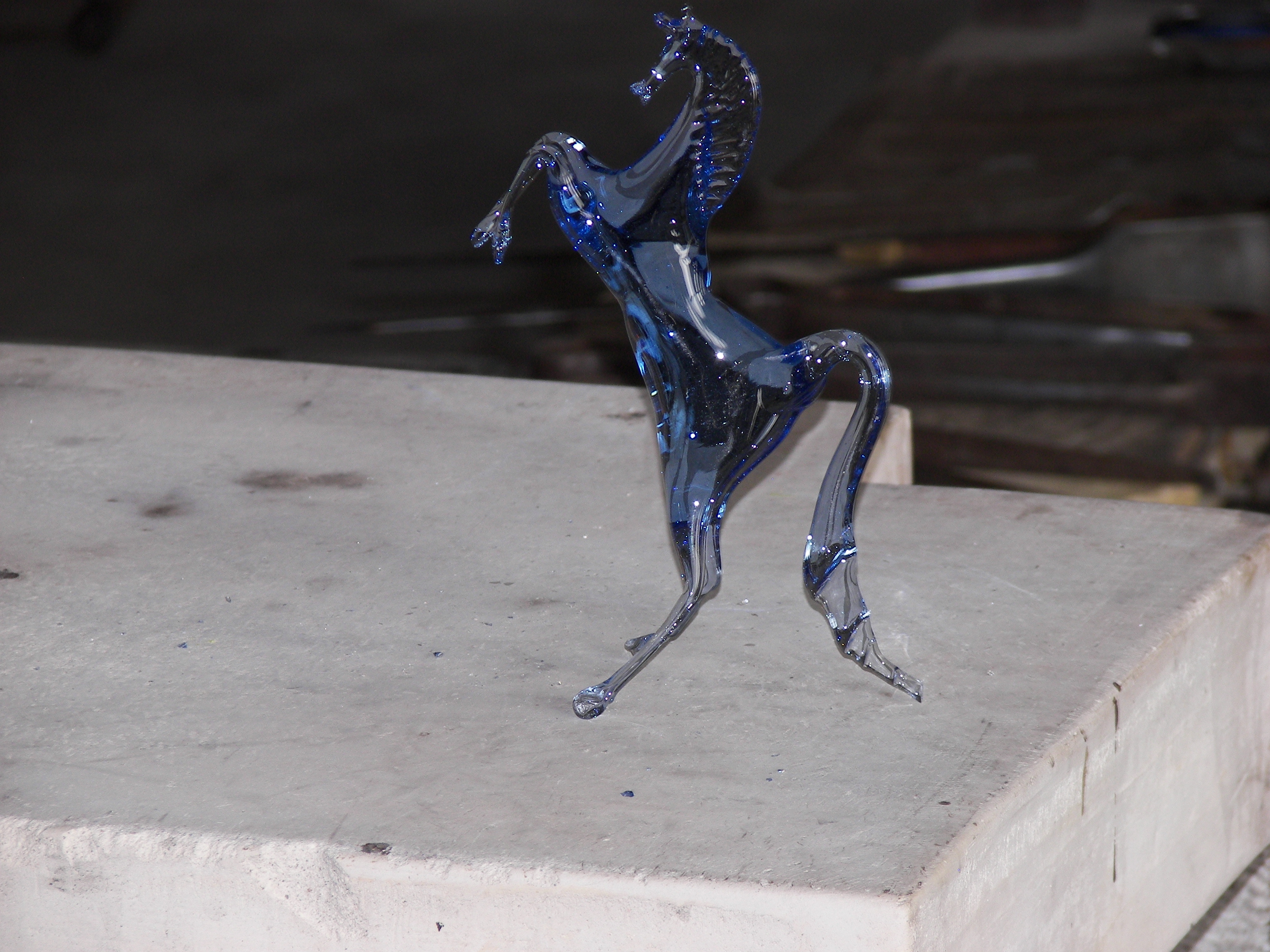 Horse figurine made during a glassblowing demonstration at a Murano glass factory in Venezia.